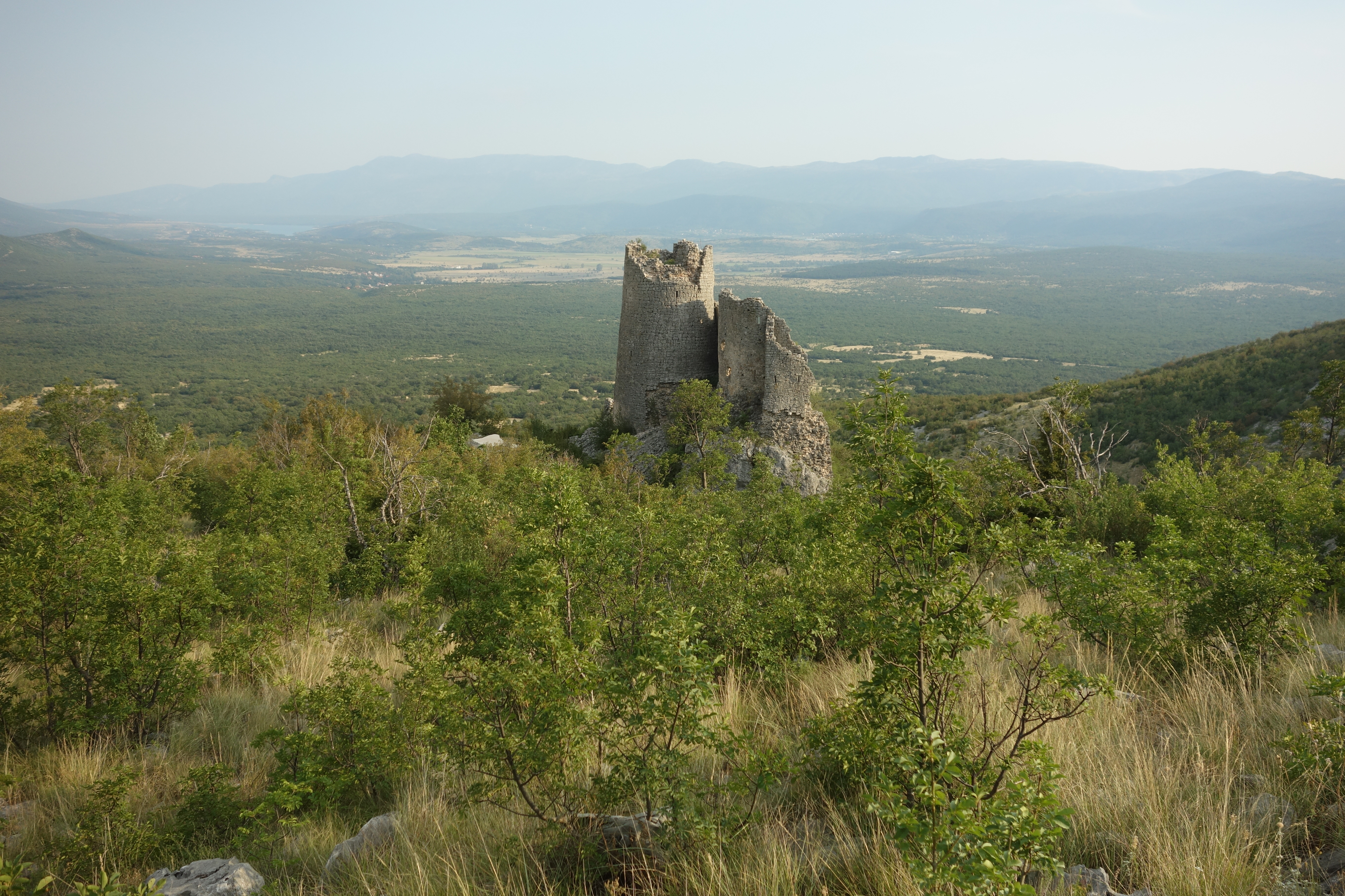 A view down to Glavaš Fortress